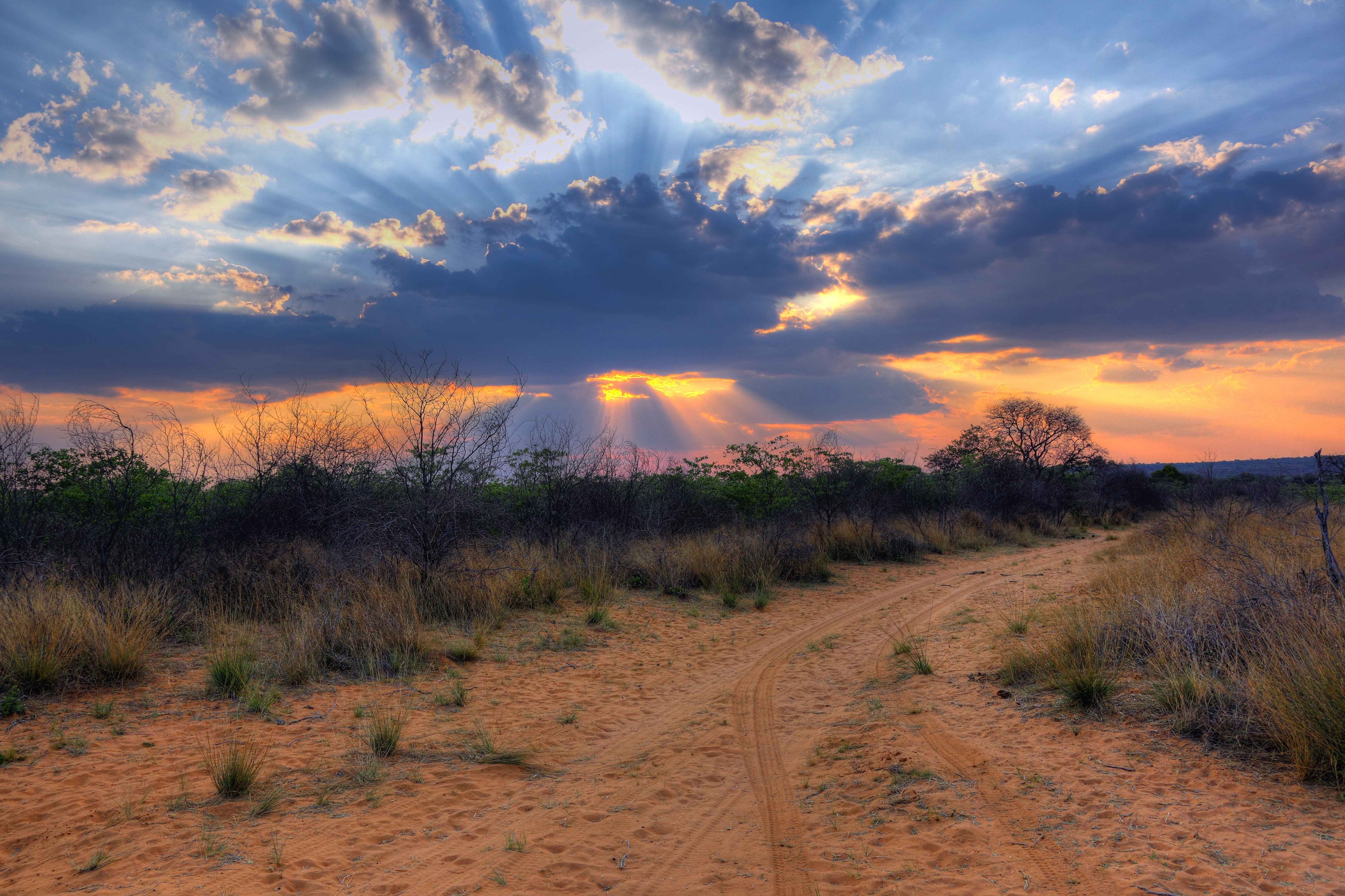 Crepuscular rays at sunset near Waterberg Plateau (Wabi Game Ranch) in Namibia.